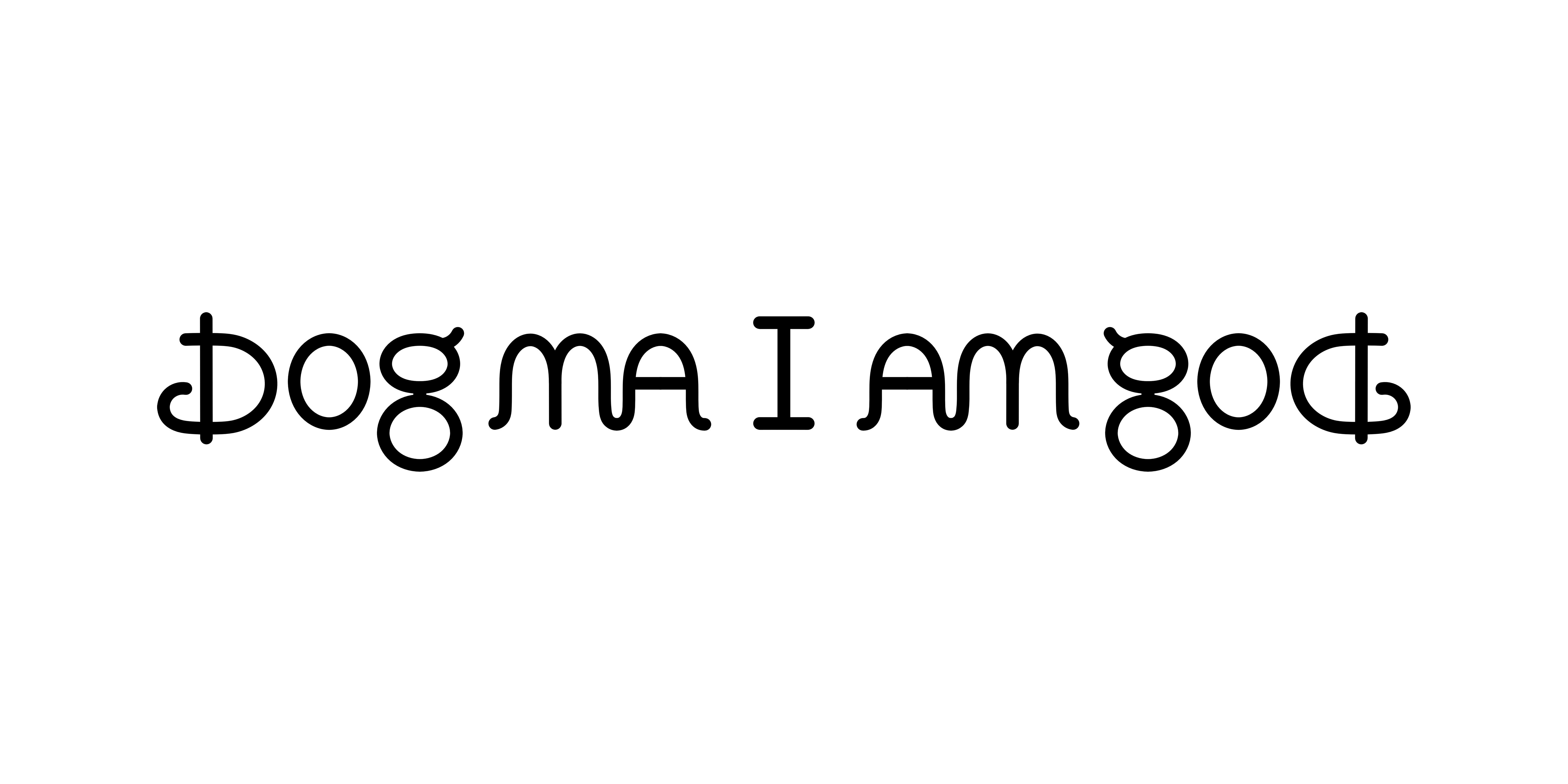 Ambigram Dogma I am god. Mirror symmetry (vertical axis). Famous palindrome of 11 letters.